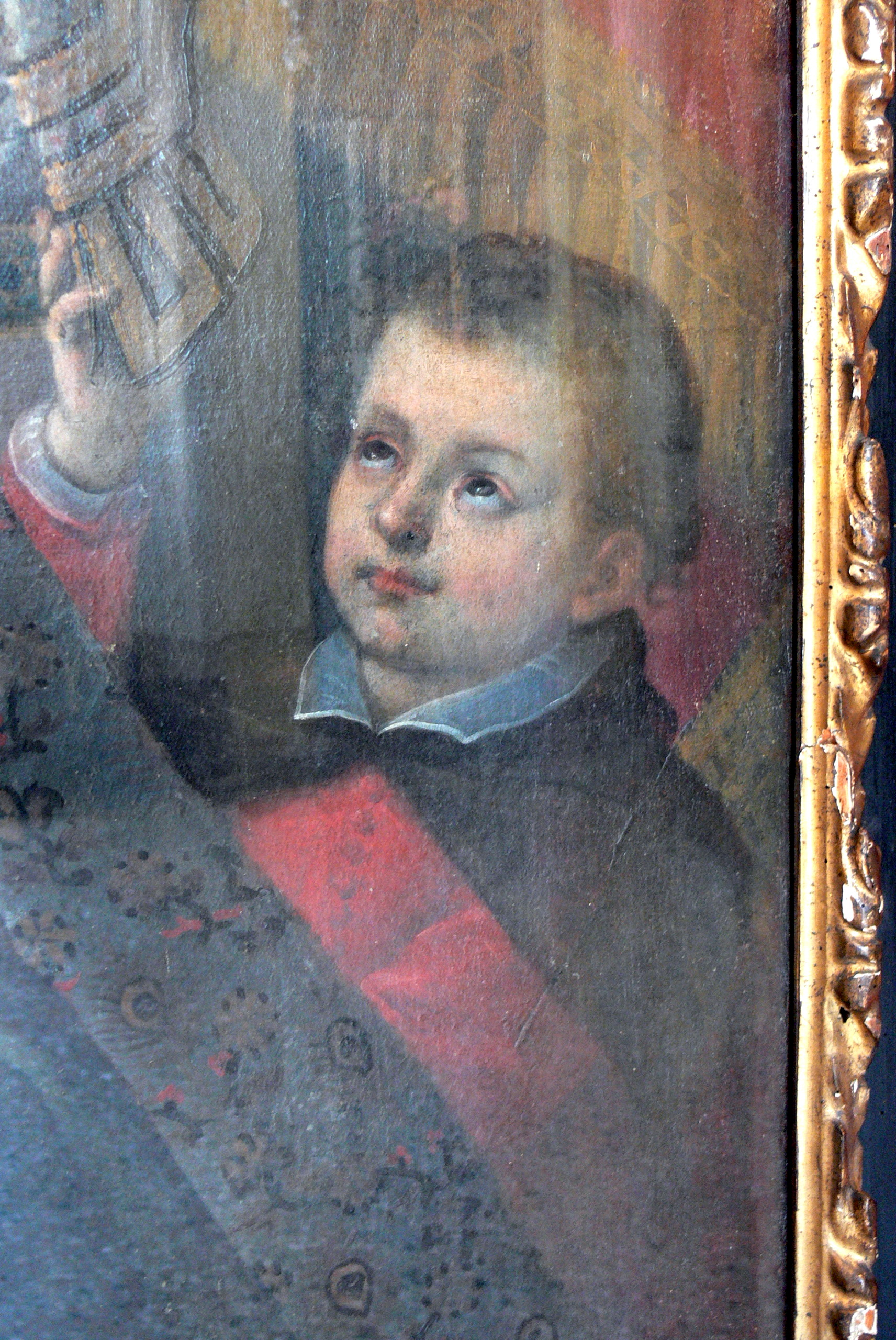 Isola Bella ( Lago Maggiore ). Borromean palace: Painting of young Saint Charles Borromeo.